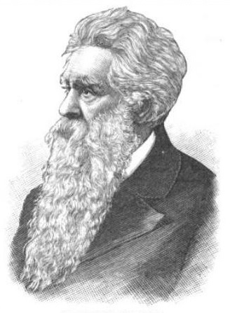 William Swan Plumer, Presbyterian clergyman, author and educator.